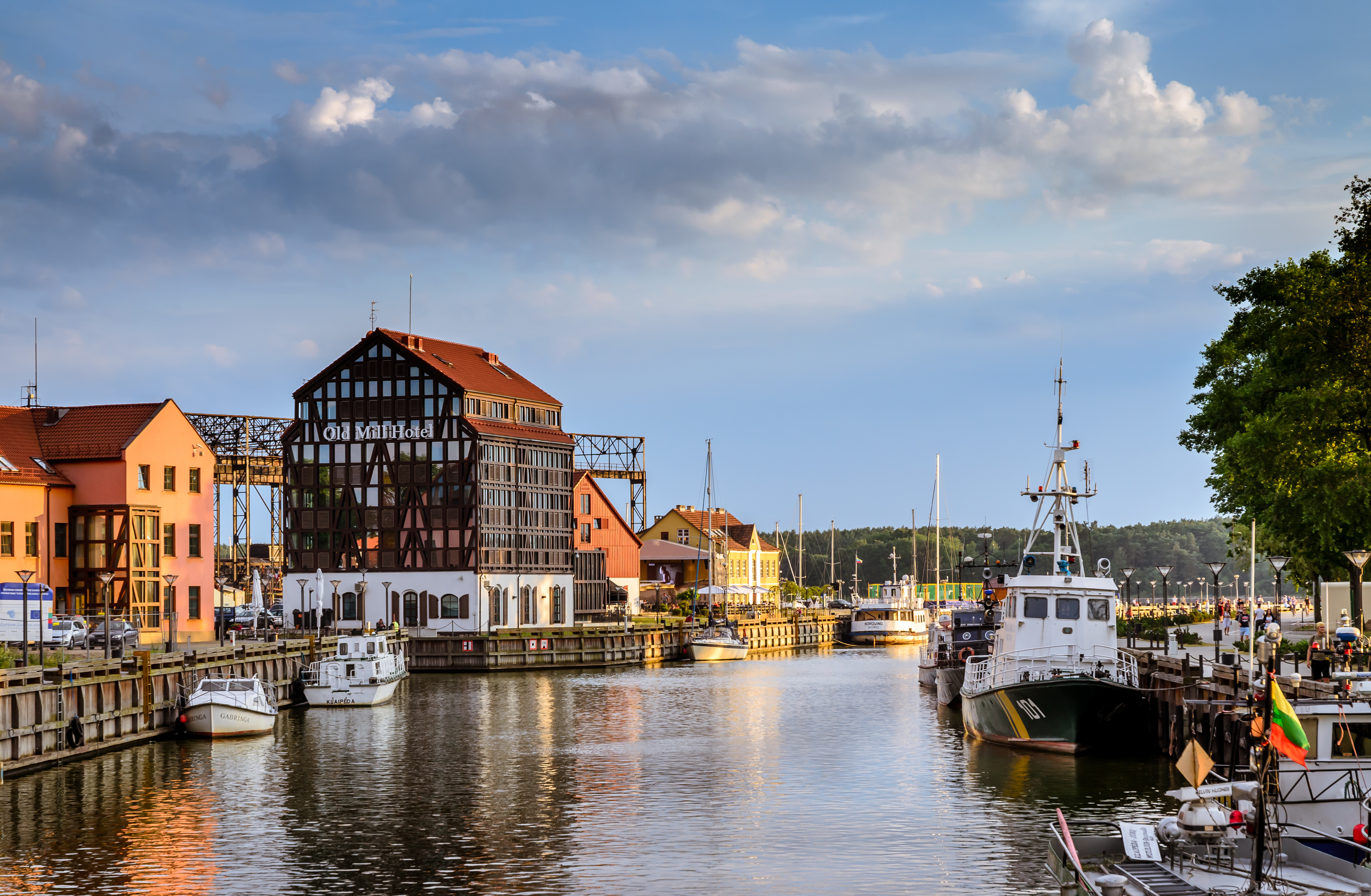 Quiet summer evening in the port city Klaipėda.